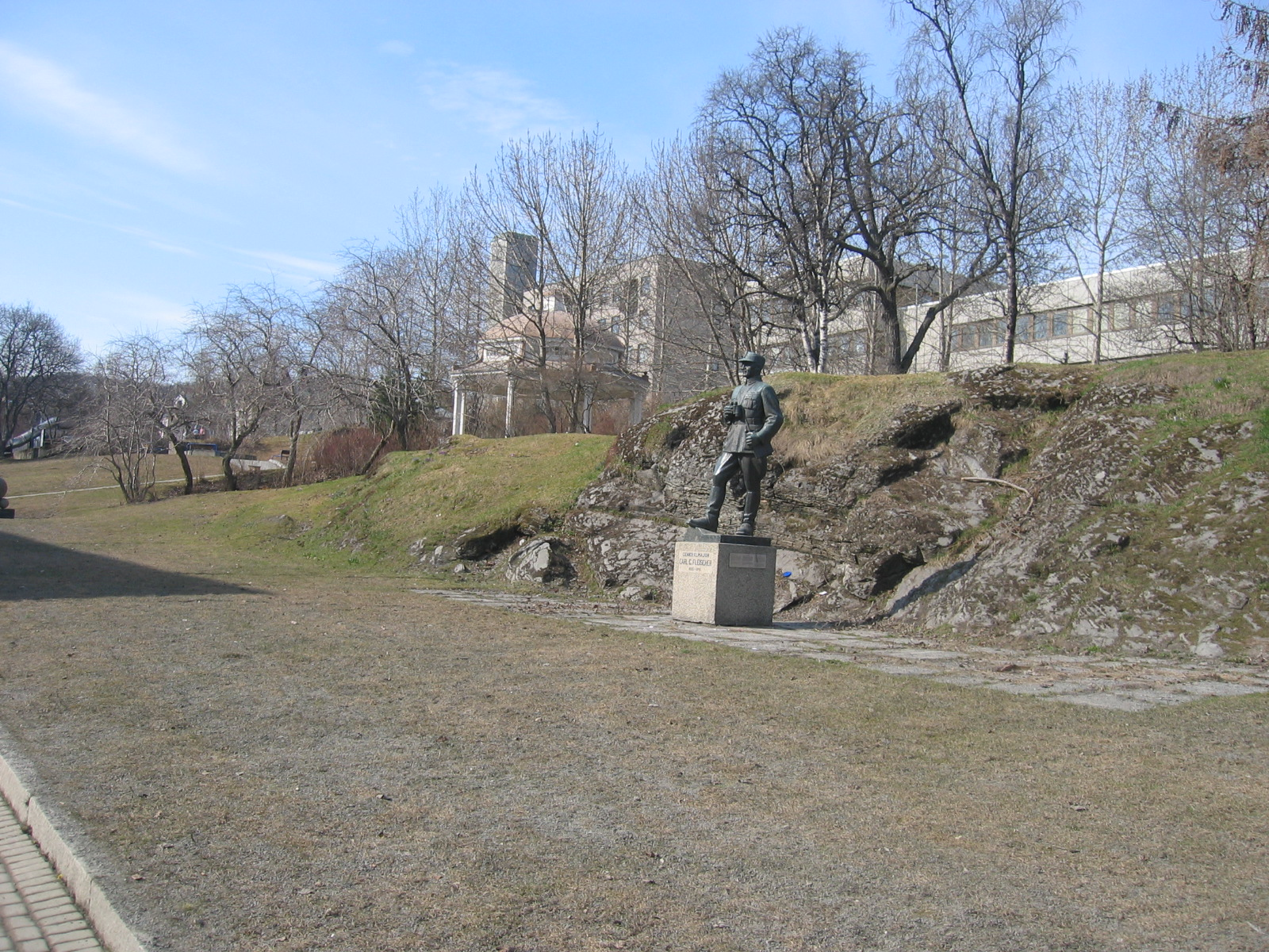 The park "Generalhagen" in the centre of Harstad, Norway